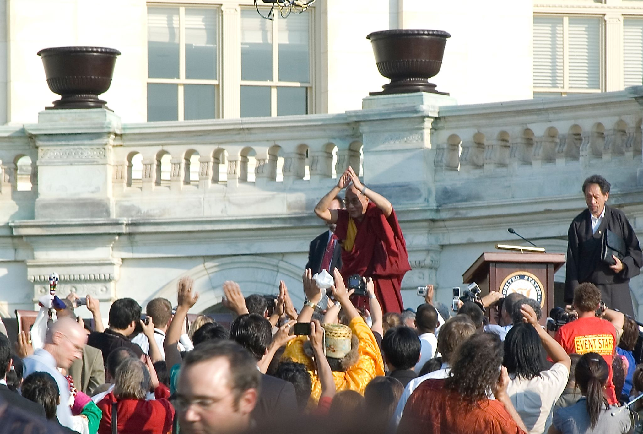 Dalai Lama awarded the Congressional Gold Medal, October 2007